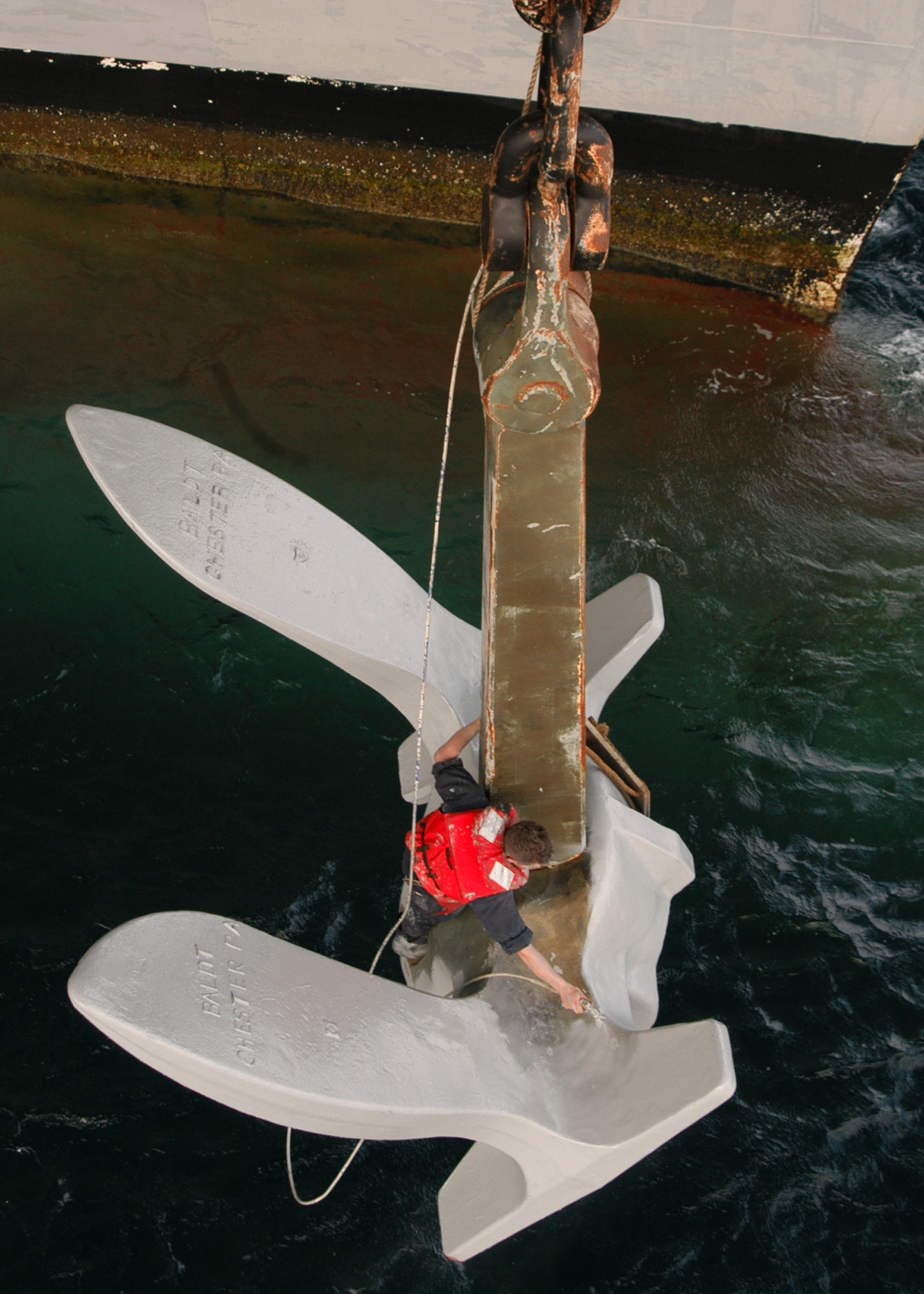 Onslow Bay, N.C. (Jun. 28, 2003) -- Seaman James Todd, from Fresno, Calif., paints the USS Kearsarge (LHD 3) starboard anchor while anchored in Onslow Bay. Kearsarge and 2nd MEB are on their way home from a successful deployment. The multi-purpose amphibious assault ship participated in Operation Enduring Freedom, Operation Iraqi Freedom, and provided support to the President of the United States during his summits with the Arab leaders in Egypt and Jordan. Kearsarge was also extended on deployment when directed to prepare for possible support to Operation Shinning Express in Western Africa. Kearsarge is scheduled to arrive at their homeport of Naval Station Norfolk on June 30. U.S. Navy photo by Photographer's Mate 3rd Class Angel Roman-Otero. (RELEASED)